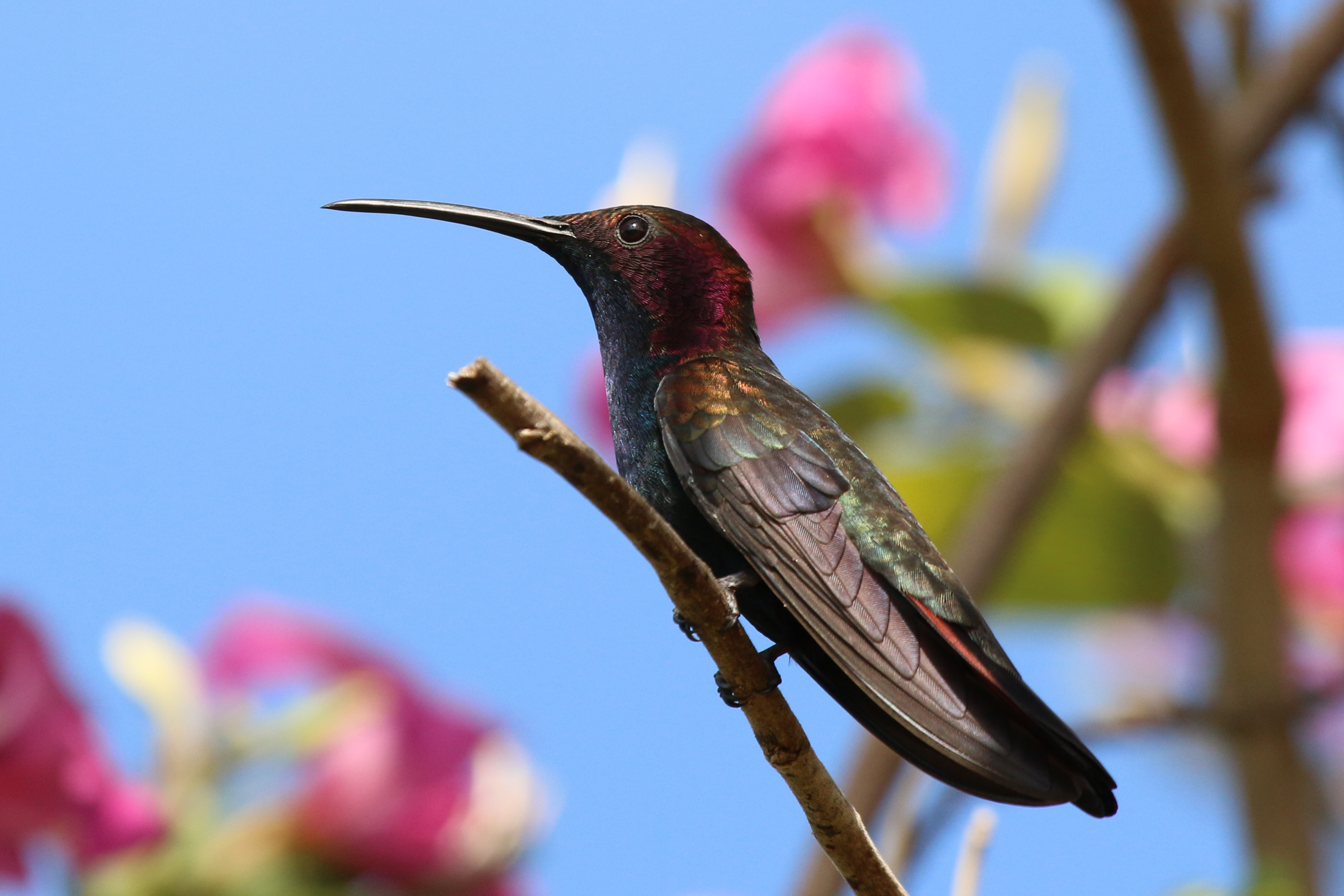 Jamaican mango (Anthracothorax mango) male, Jamaica